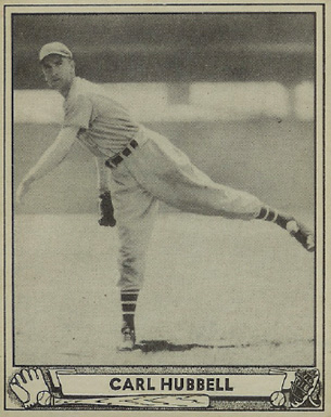 New York Giants pitcher Carl Hubbell.